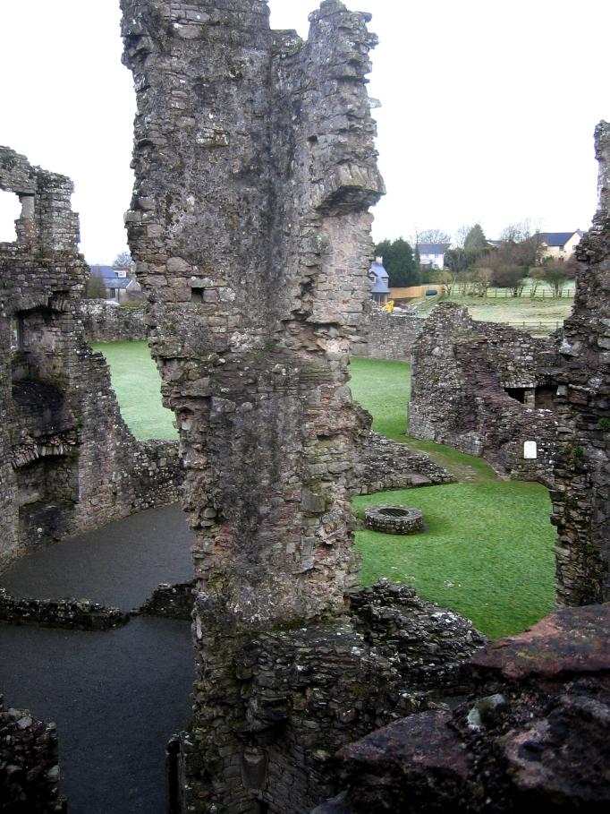 Coity Castle, Wales, view of the ground floor service rooms, probably including a kitchen, with ovens and the base of a large malting kiln remaining. Photo is taken from the third floor stairway of the living quarters, extensively remodelled in the 16th Century